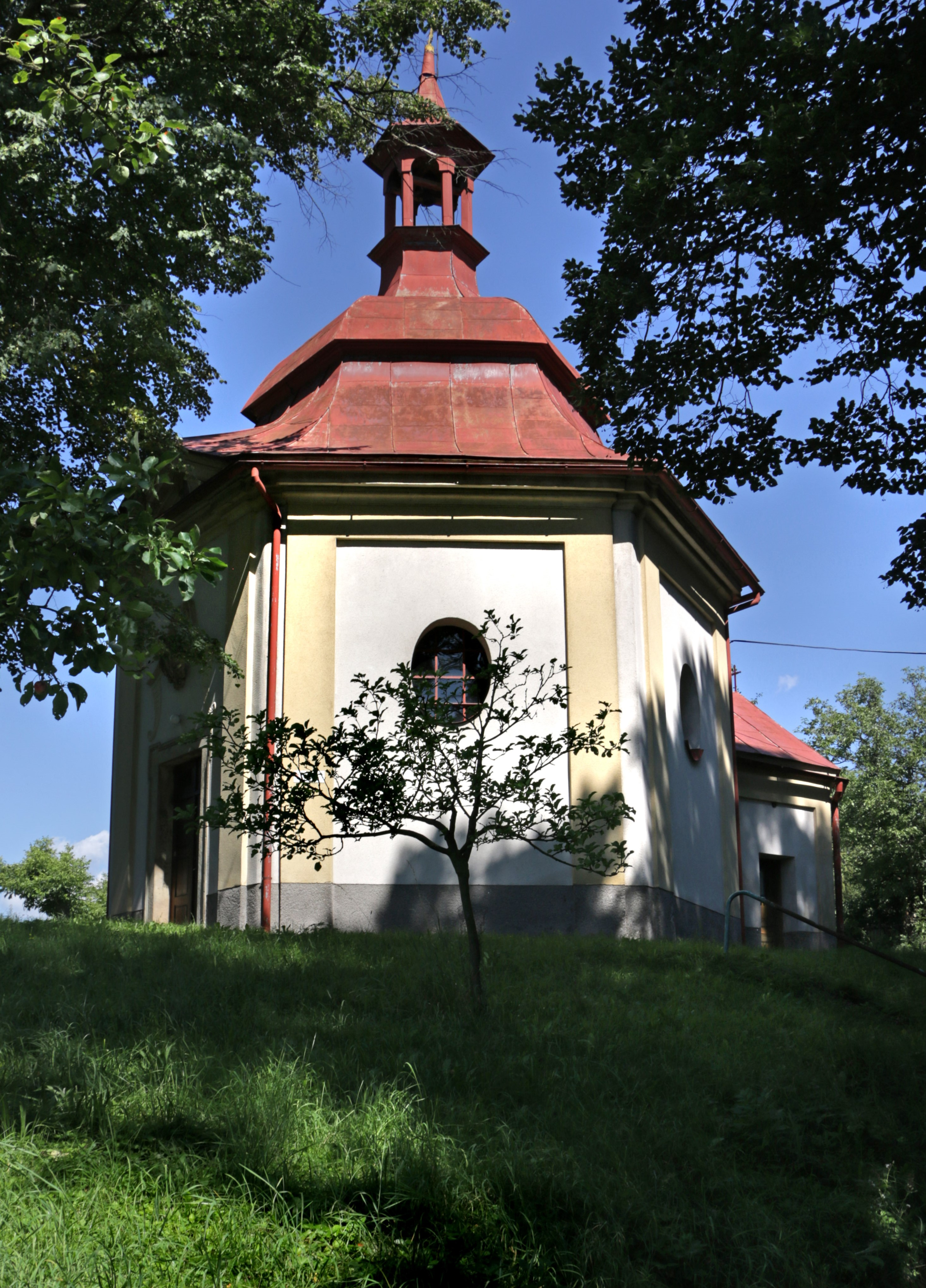 Chapel in Studánka, Domašín, part of Dobruška, Czech Republic.